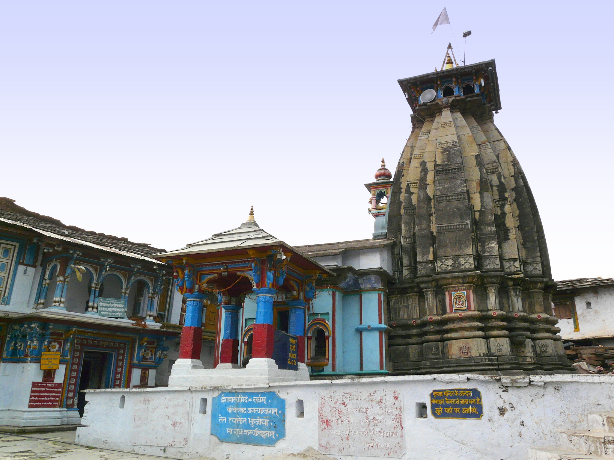 Ukhimath Temple, near Kedarnath, Uttarakhand. Here the Kedarnath deity as well as the Madhmaheshwar diety are kept during the winter months.